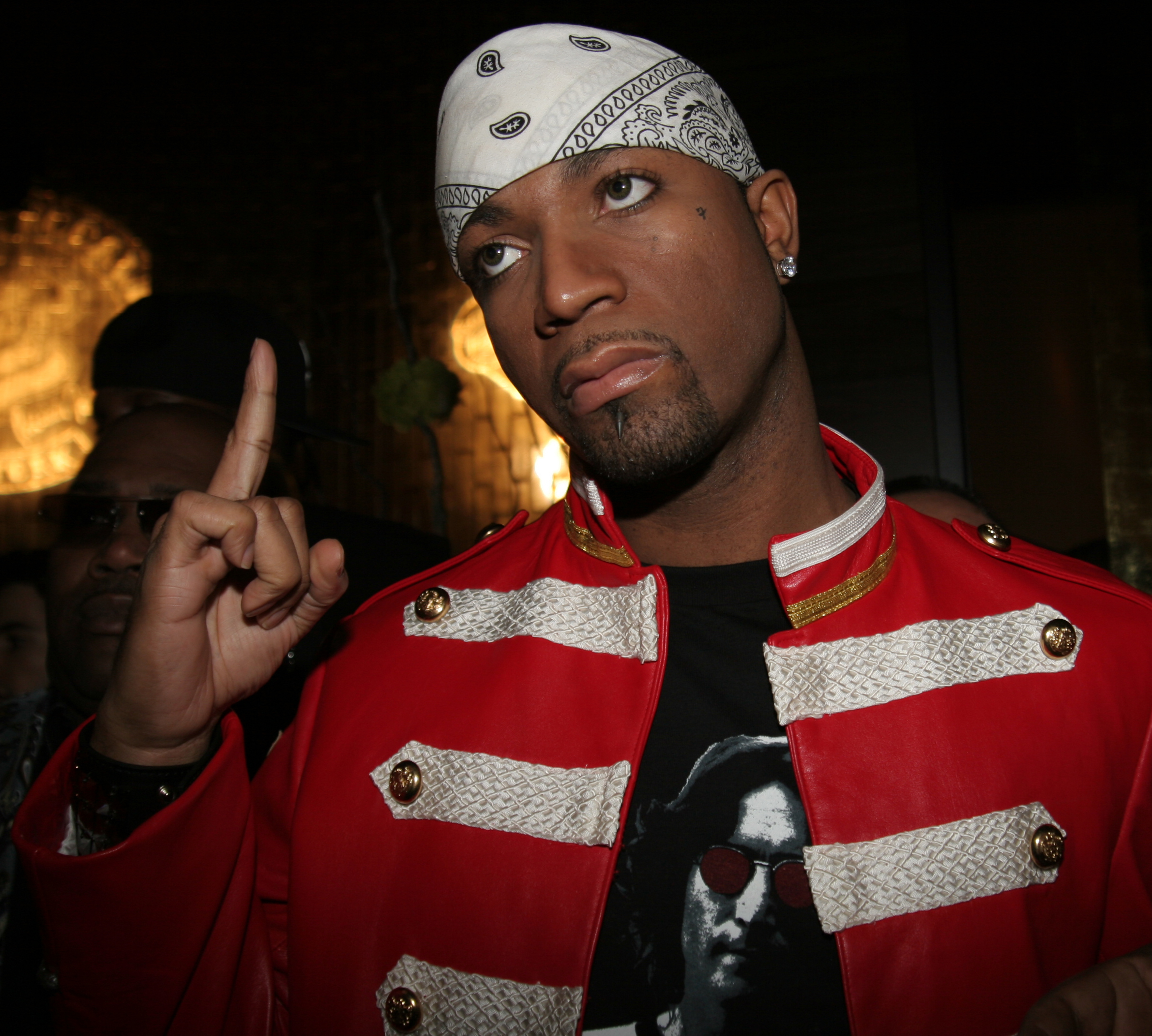 Channel 7 in February 2005.